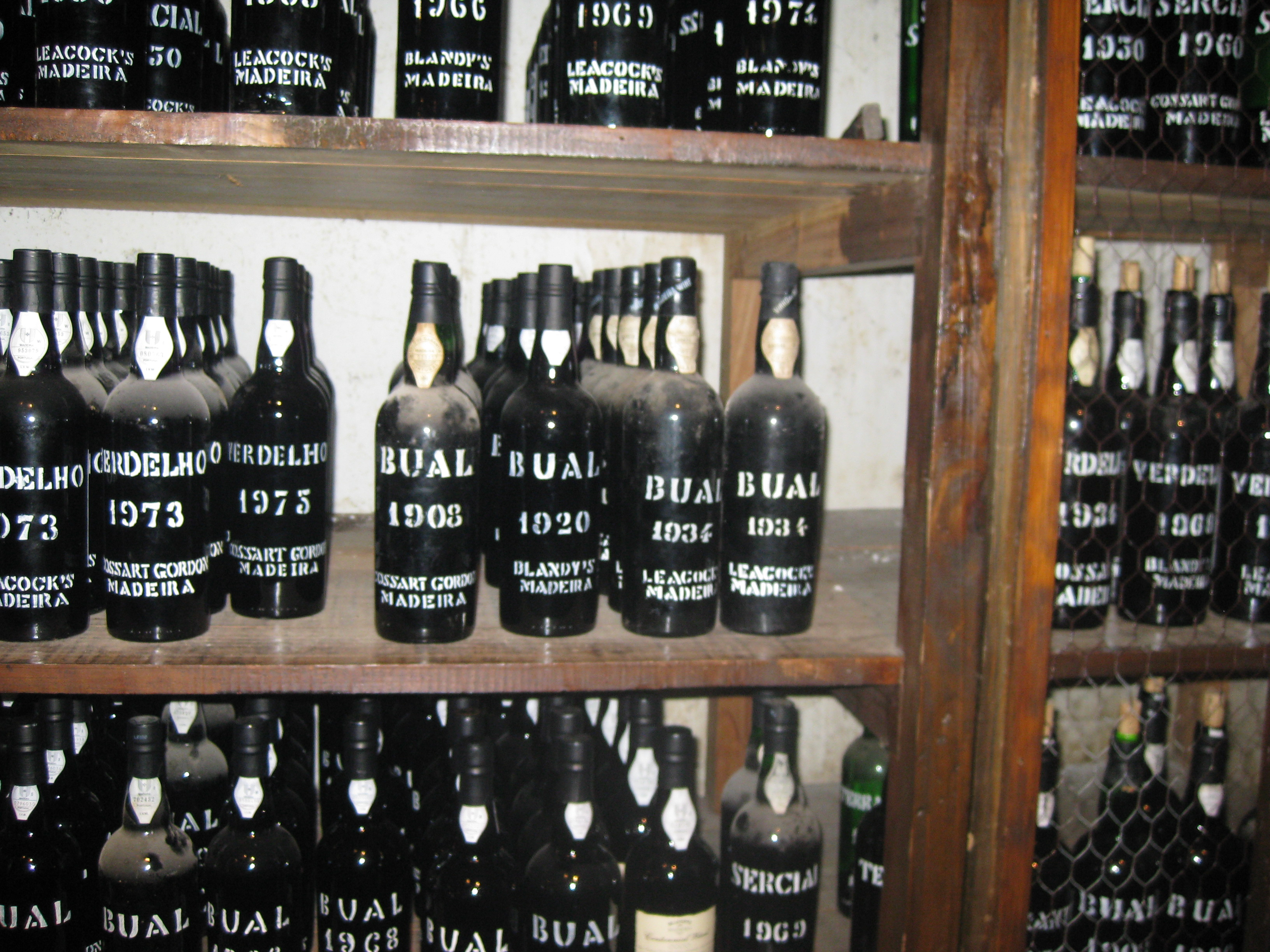 One of the liquour stores at Madeira island.